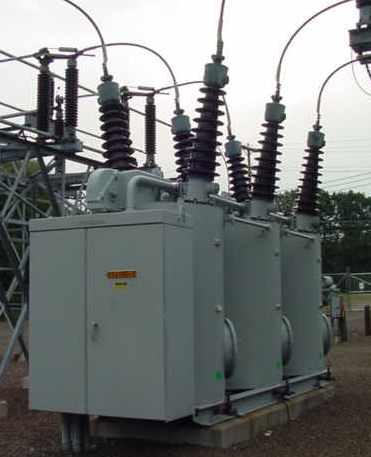 High Voltage (115kV) Oil Insulated Circuit Breaker (Westinghouse)